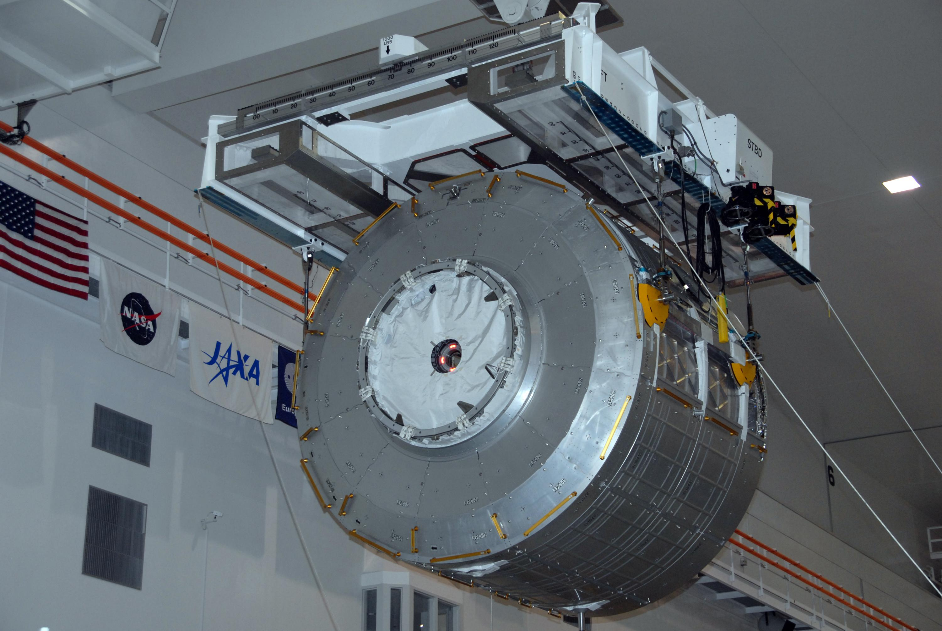 In the Space Station Processing Facility at NASA's Kennedy Space Center, an overhead crane moves the Experiment Logistics Module Pressurized Section, or ELM-PS, of the Japanese Experiment Module, called Kibo, across the facility toward a payload canister for eventual transfer to Launch Pad 39A. The ELM-PS is the primary payload for space shuttle Endeavour's STS-123 mission, which is targeted for launch to the International Space Station on March 11.